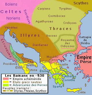 Historic map of Balkan peninsula, 530 b.c.